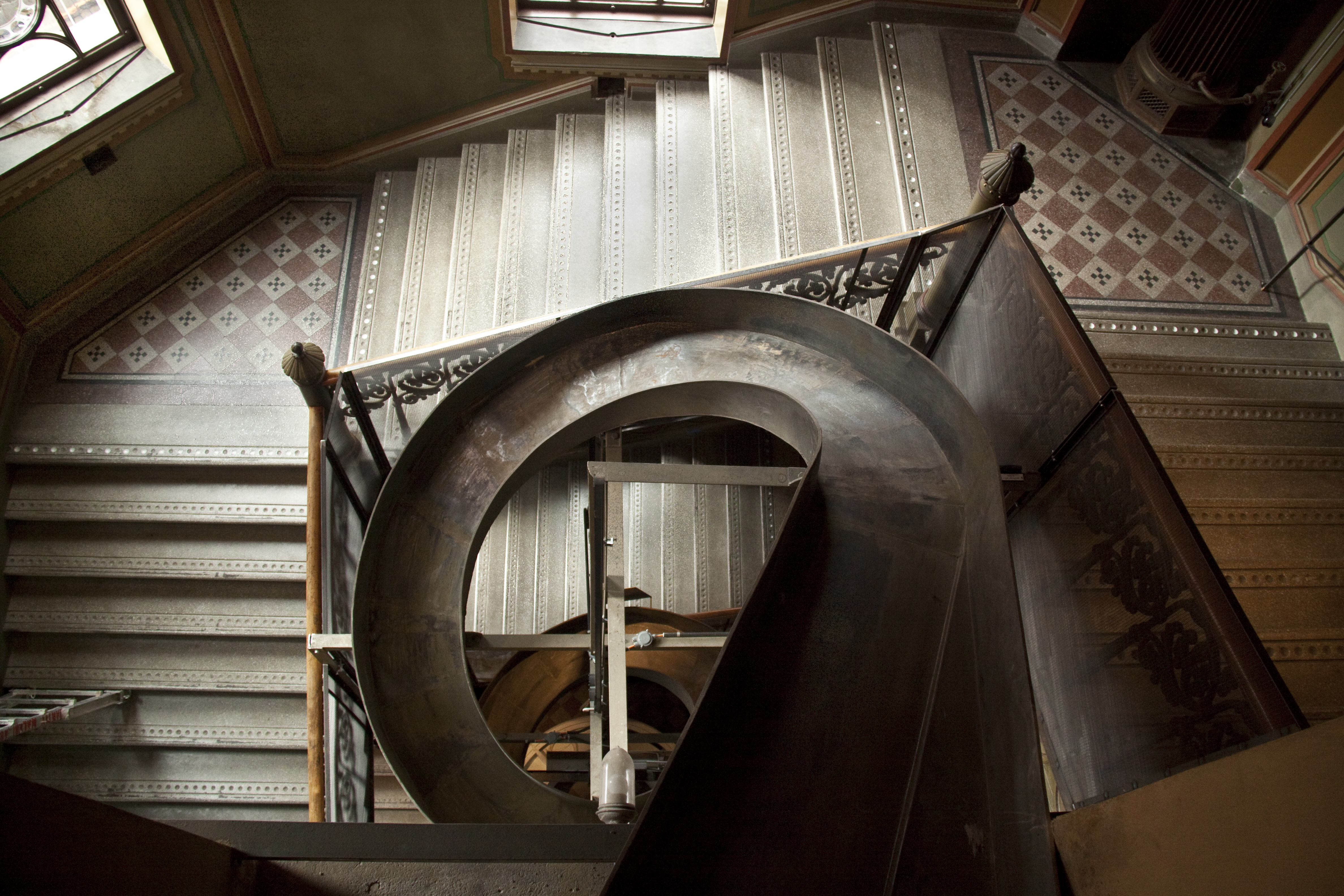 Slide inside the old National Archive Building, Riddarholmen, Stockholm.